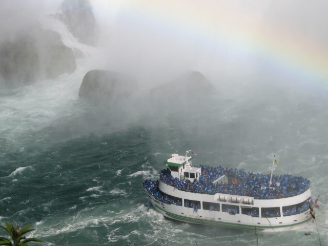 A view of Maid of the Mist VI next to the Horseshoe Falls underneath a rainbow in Niagra Falls. This image was taken on the Canadian side of the river in the city of Niagara Falls, Ontario.